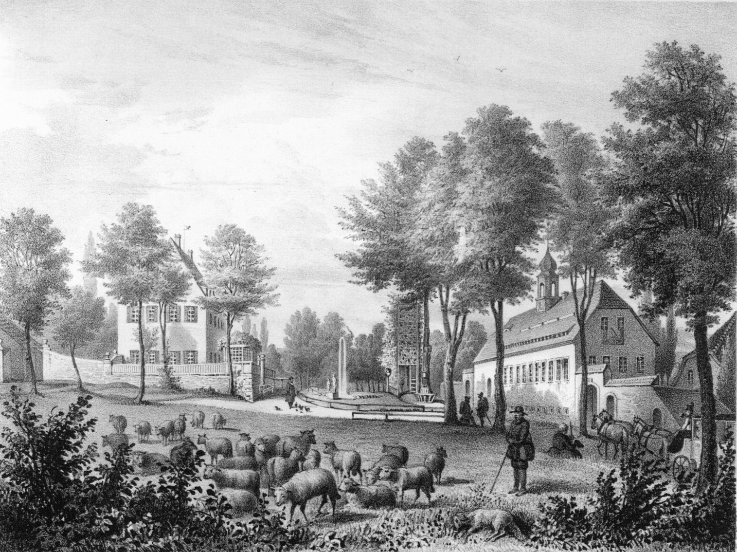 manor Schönfeld in the Erzgebirge